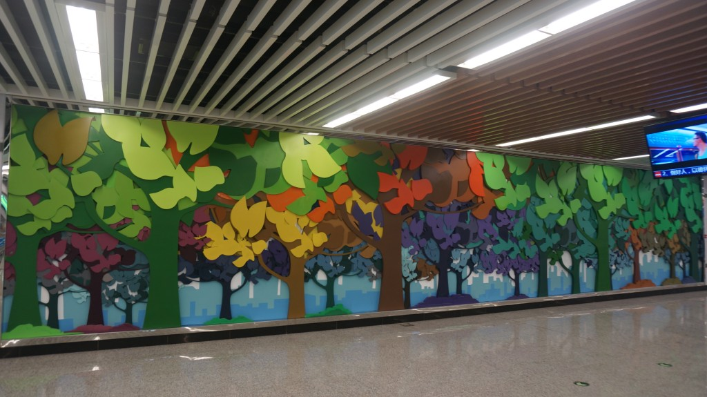 Zaoyuan Station Art